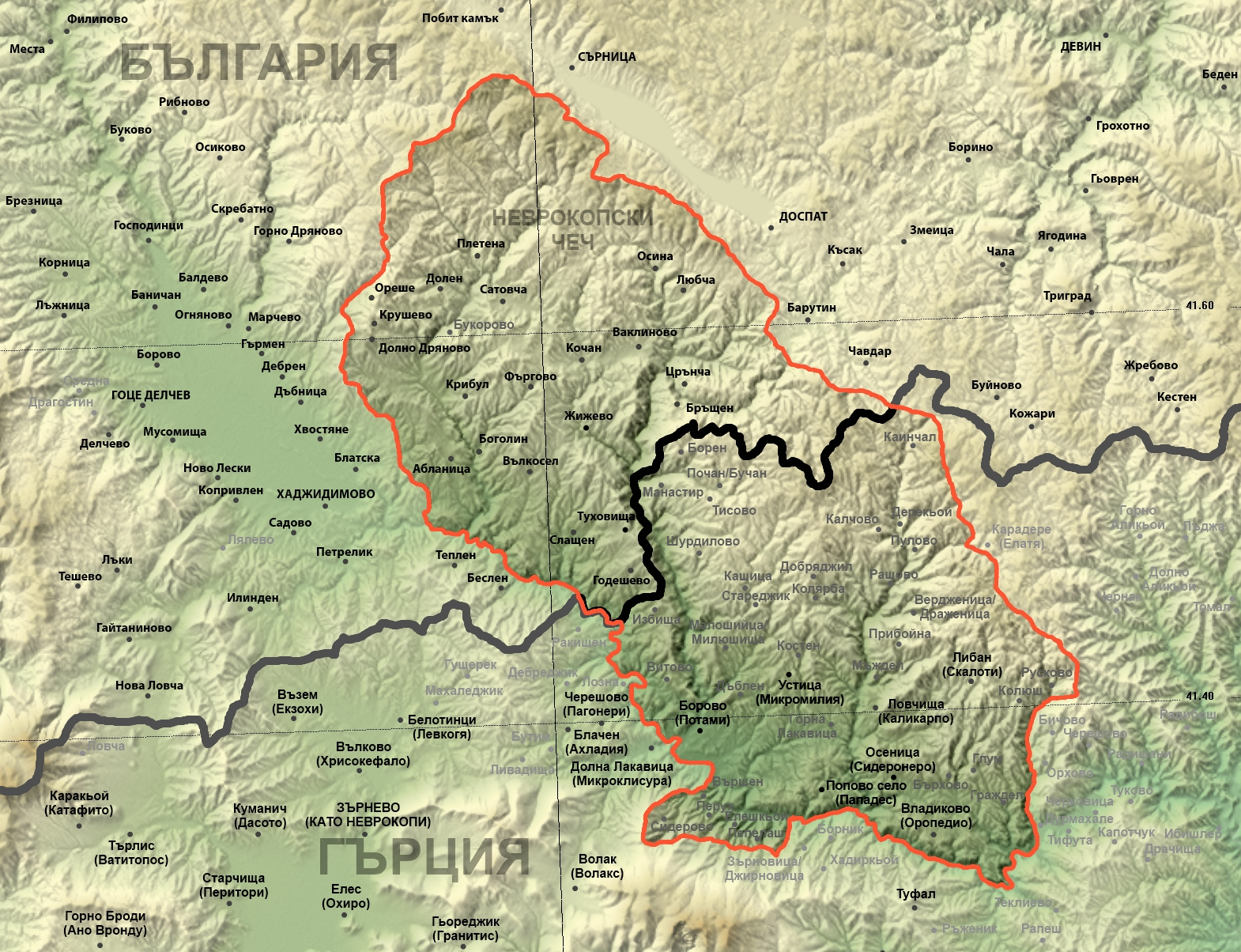 Topographic map of the Nevrokop Chech. Topography: SRTM Place names in Greece: Todor Simovski Chech borders: Vasil Kanchov Software: 3DEM, , PhotoFiltre